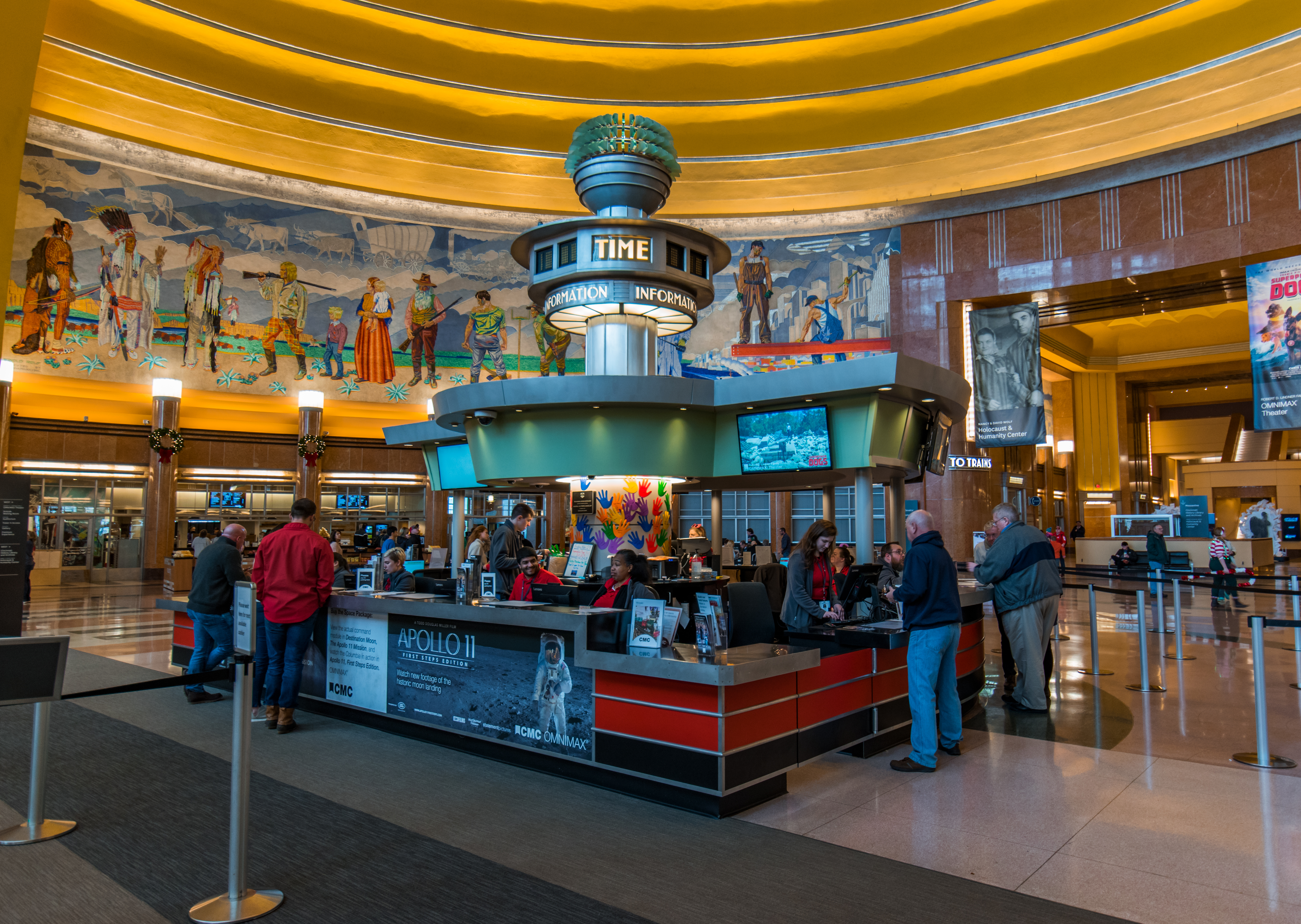 Cincinnati Union Terminal, iconic rail terminal in Cincinnati, Ohio.